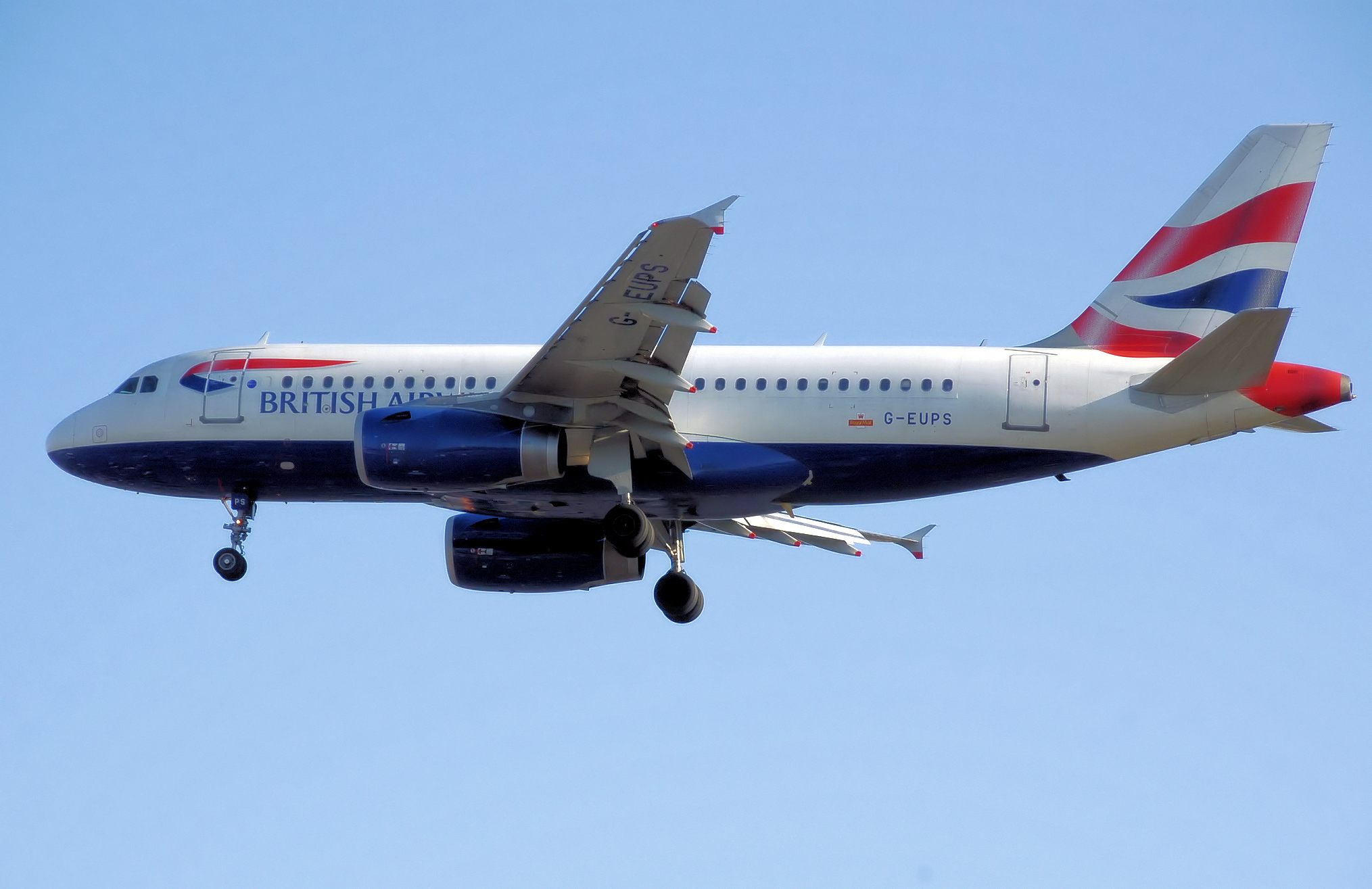 British Airways Airbus A319-100 (G-EUPS) lands at London Heathrow Airport, England.